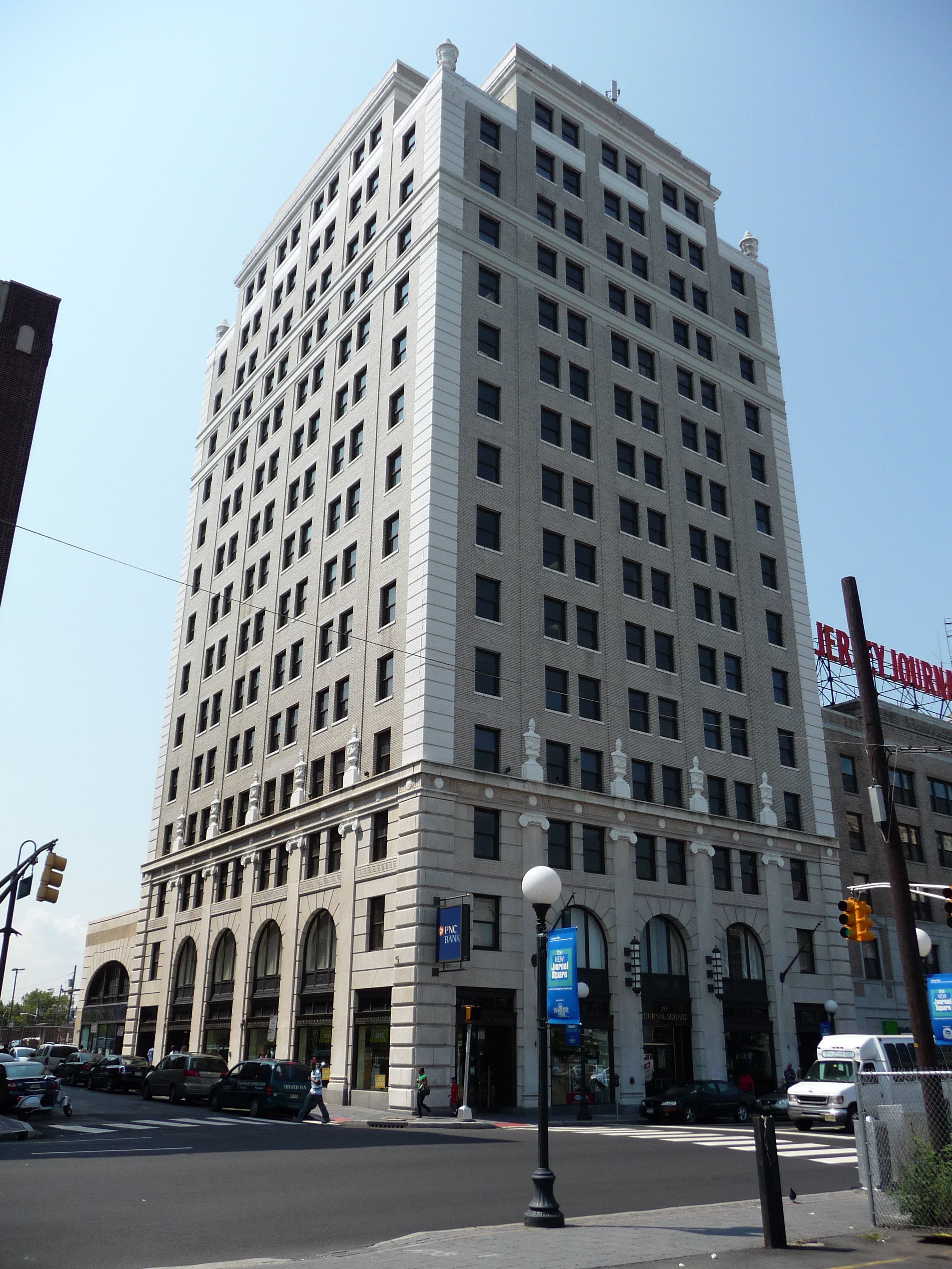 Exterior view looking west across Sipp Avenue and Enos Place at 26 Journal Square, Jersey City, New Jersey, USA.